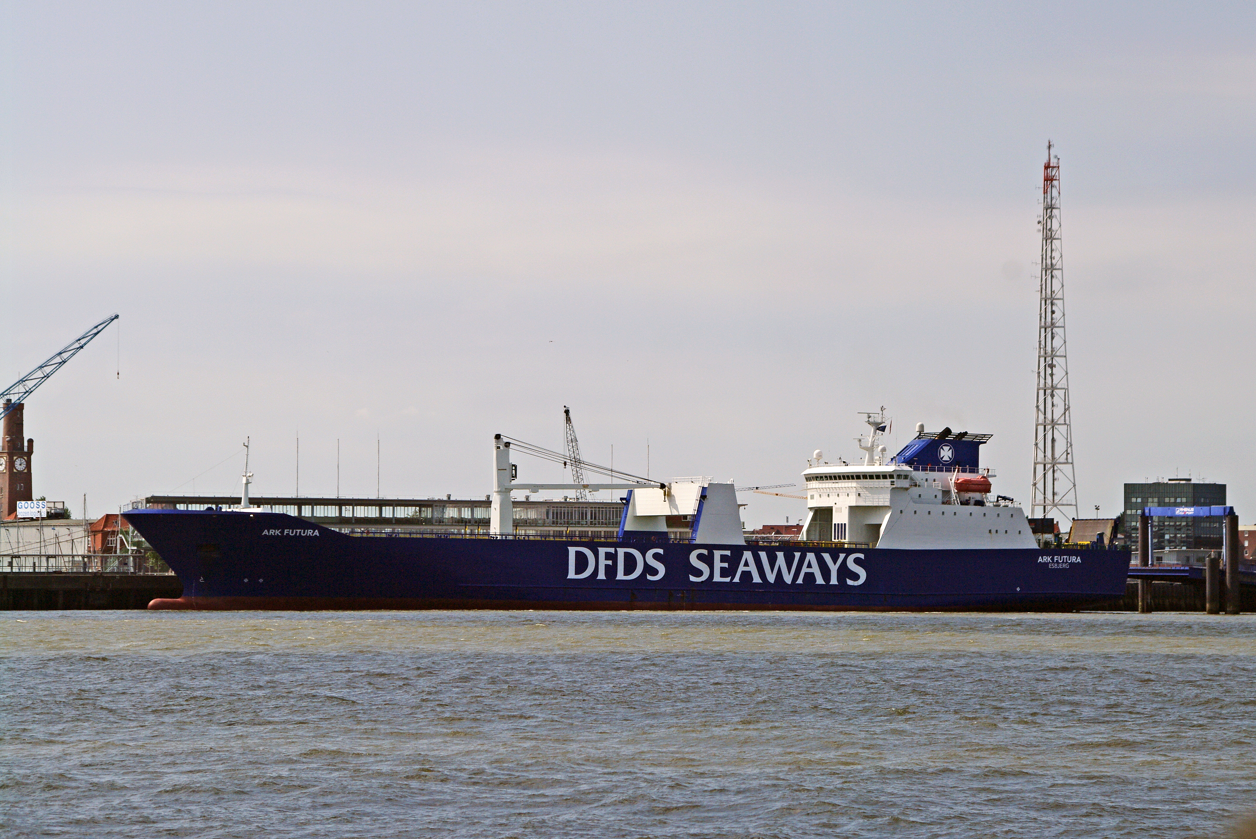 Ro-Ro- ship Ark Futura in Cuxhaven harbour